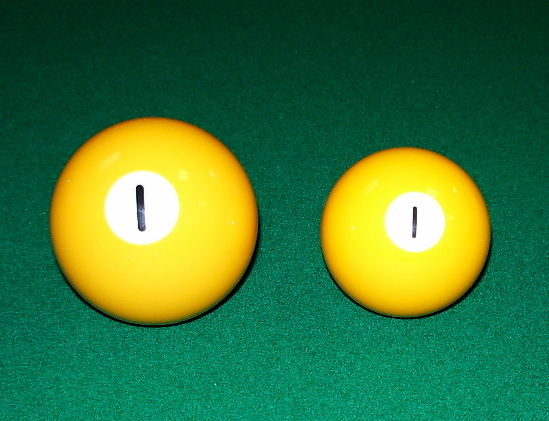 Comparison of 68 mm (211⁄16 in) Russian and 57 mm (21⁄4 in) American-style billiard balls for pool.